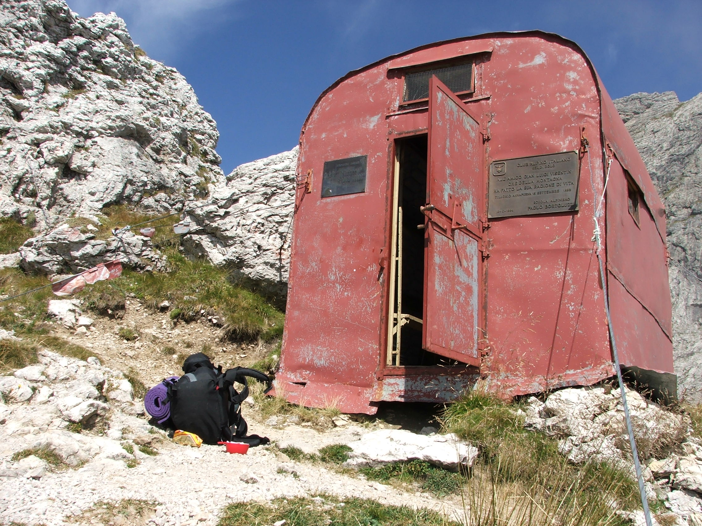 The Bivouac Màrmol in the Dolomites near Belluno (Northern Italy)